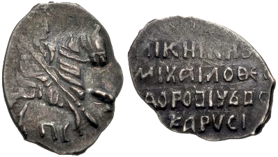 Argentum Kopeka (10mm, 0.47g, 2h), Tsardom of Russia. Mikhail Feodorovich Romanov. 1613-1645. Holding spear Saint George and "ΠC". "Mikhail" riding right.